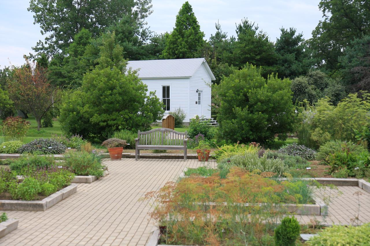 Western Kentucky Botanical Garden, at Owensboro, Kentucky, United States.